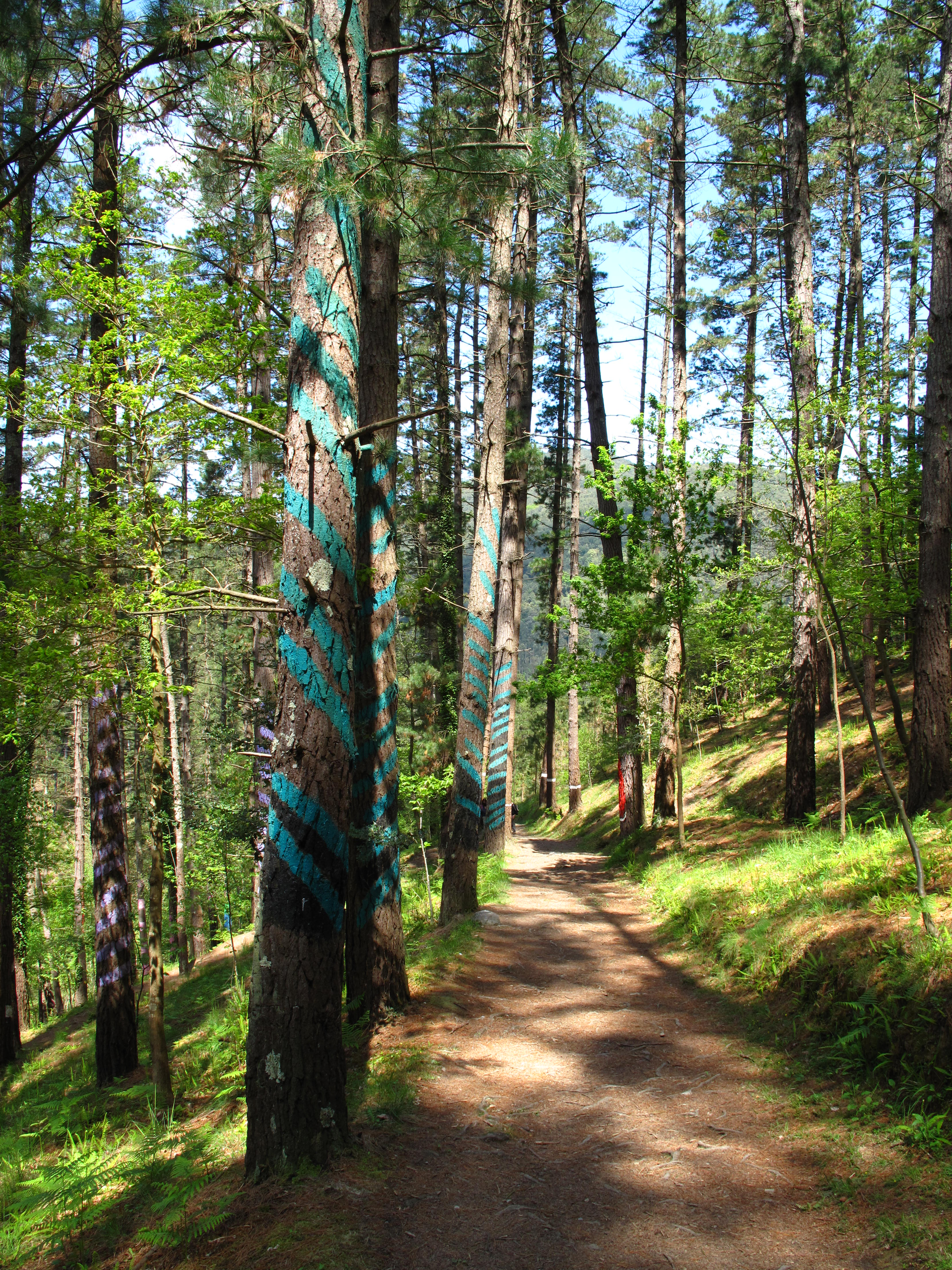 "Omako basoa" edo "Baso margotua" by Agustín Ibarrola in Kortezubi, Spain